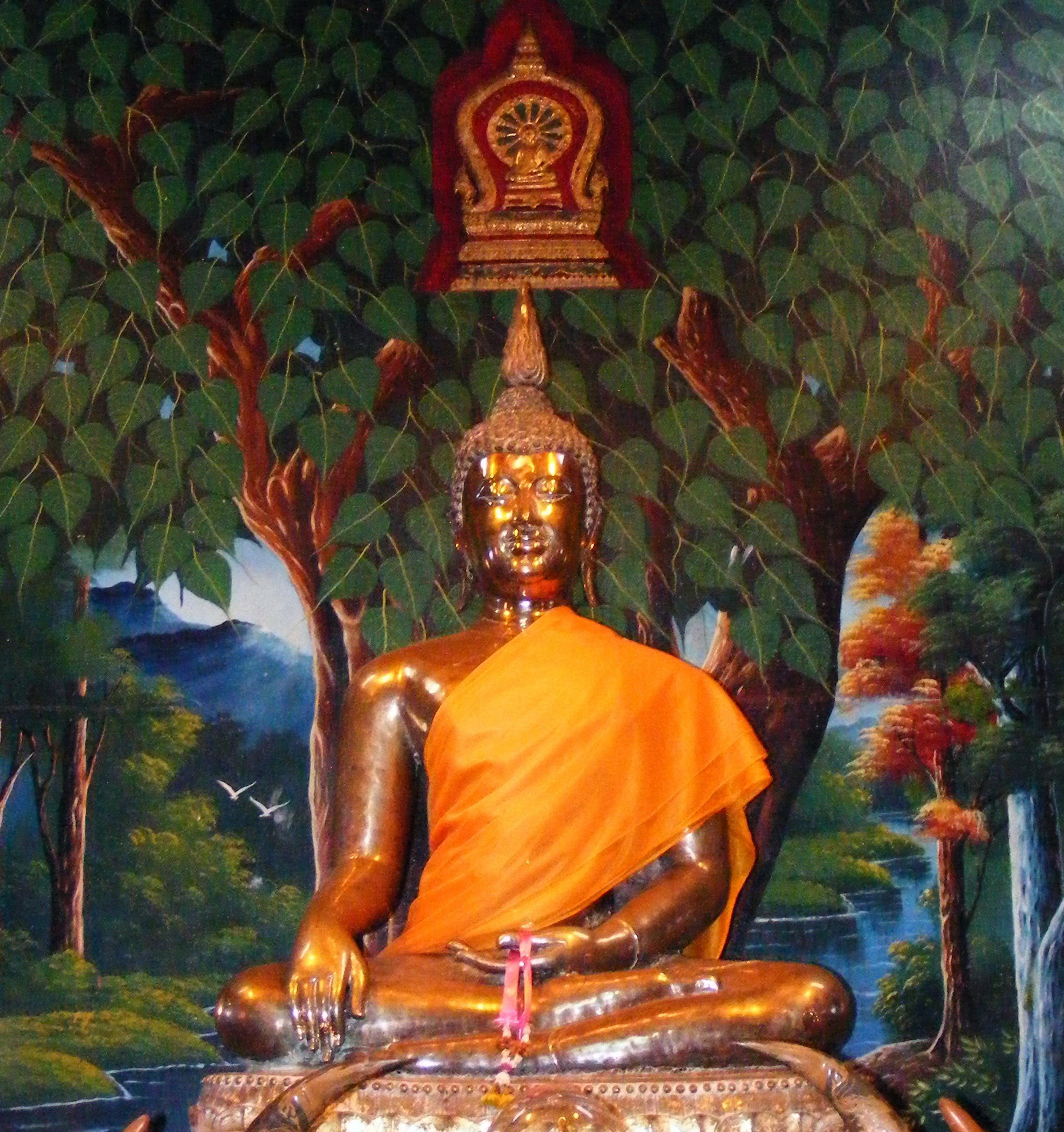 Wat Thammathippatai (dharma pavilion)Location: Wat Thammathippatai Tha It subdistrict, Mueang Uttaradit, Uttaradit Province, Thailand.